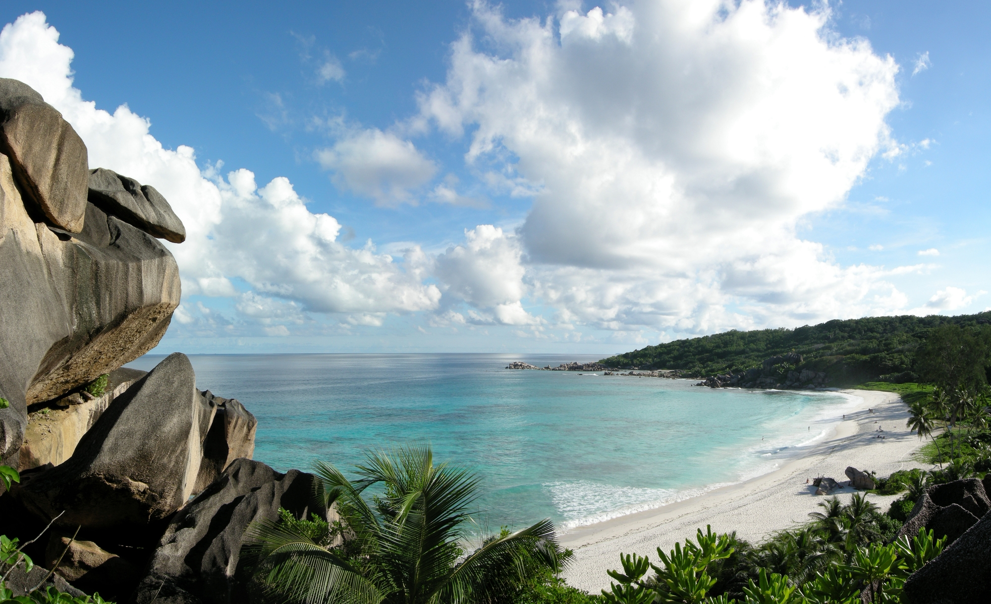 The spectacular beach of Grand Anse on the island of La Digue, Seychelles